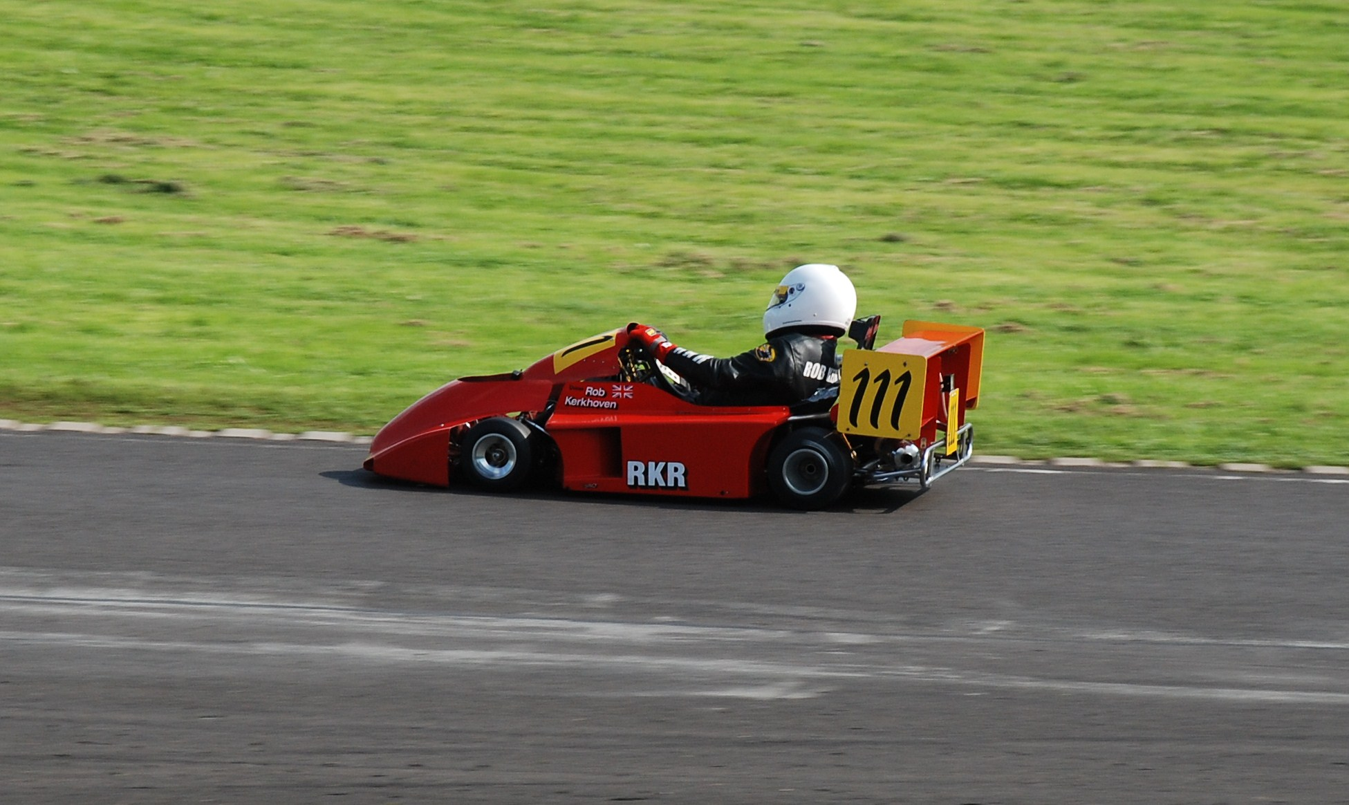 A Formula E/Division One Superkart being driven during a race by Rob Kerkhoven at Castle Combe, Wiltshire, UK